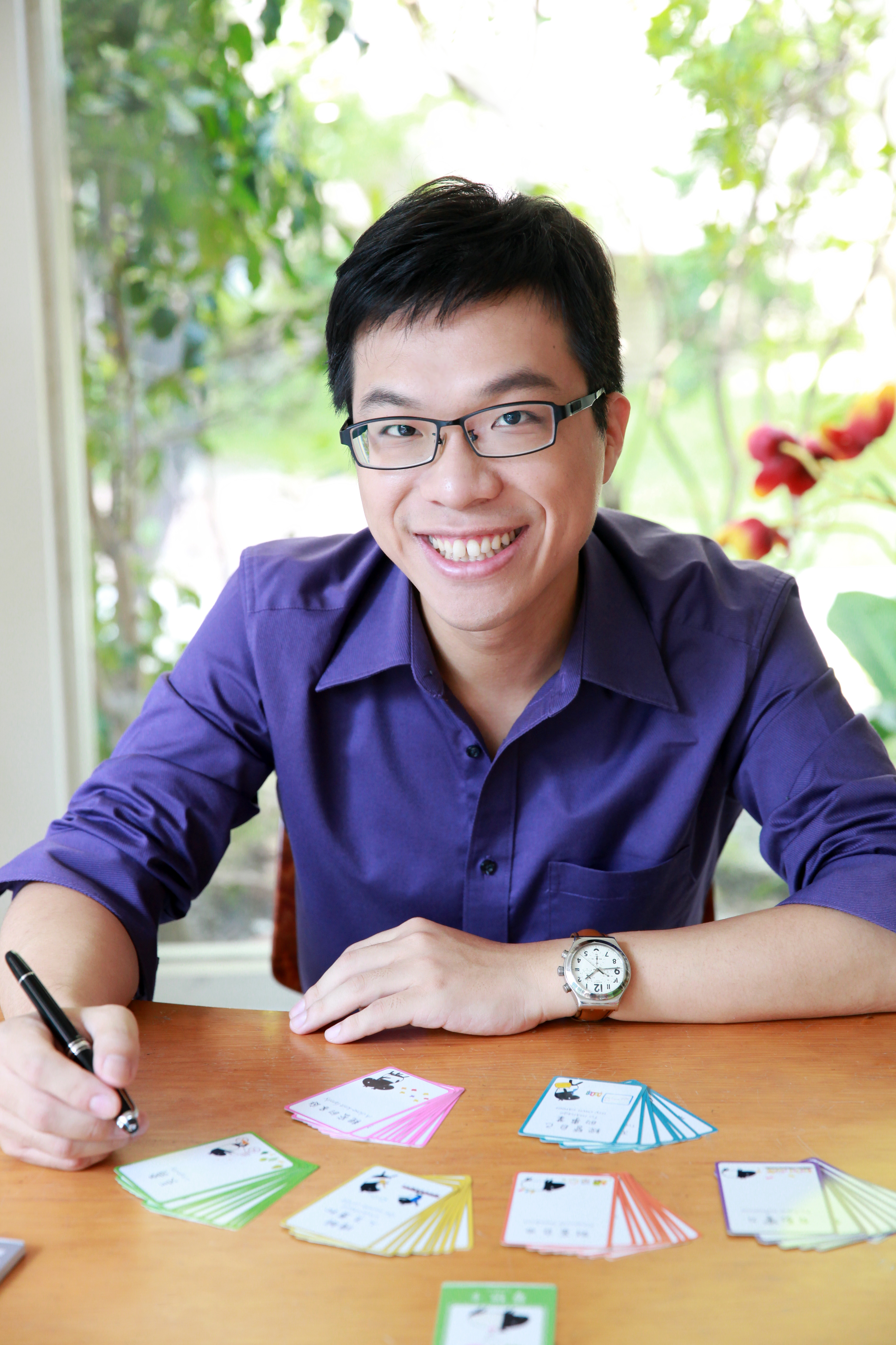 Authorize